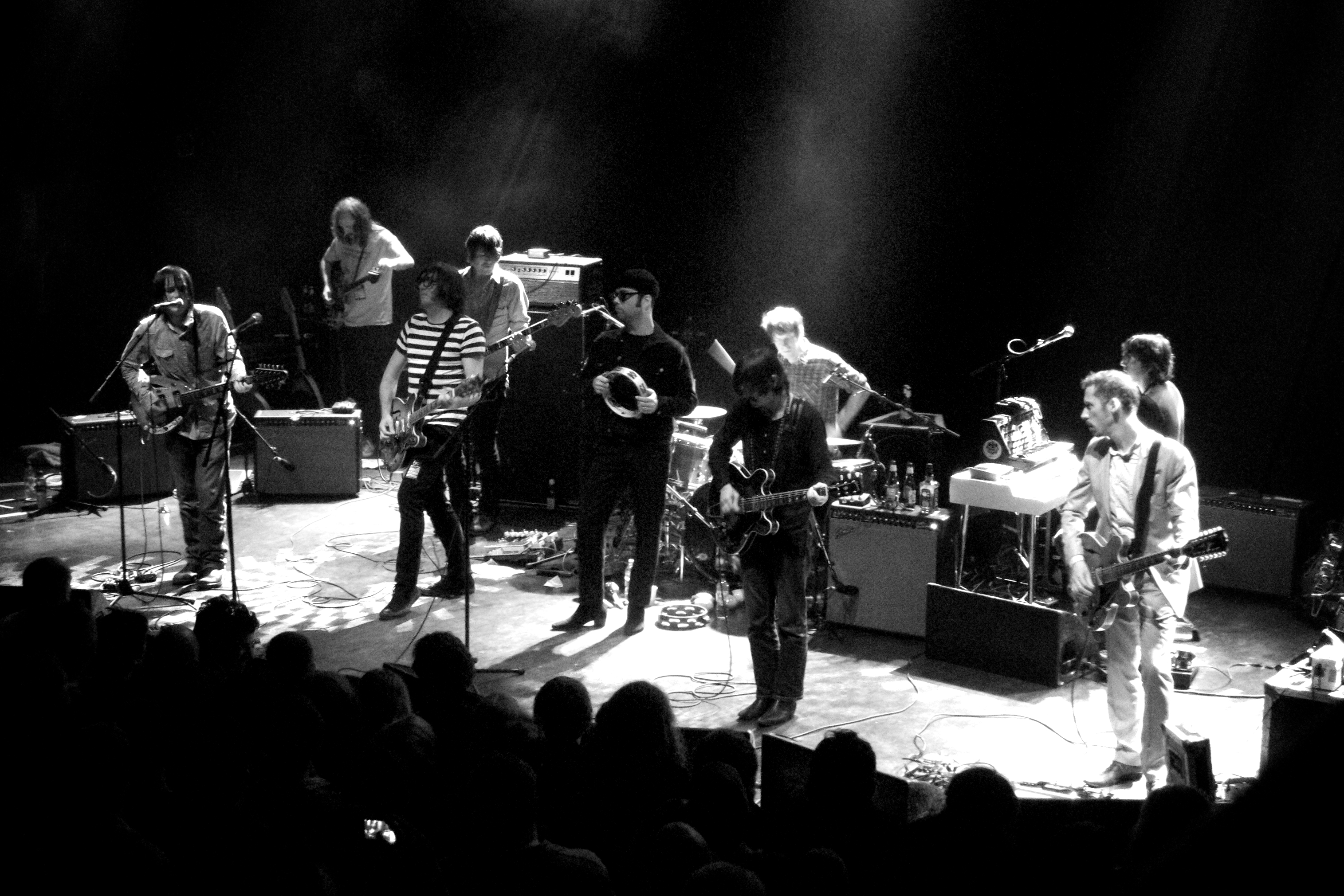 The Brian Jonestown Massacre playing live in Shepherds Bush, London, England, GB, taken using a Canon PowerShot S90.